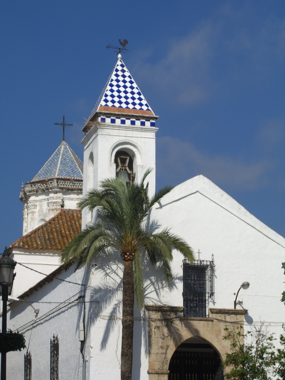 Ermita del Santo Cristo de la Vera Cruz, Marbella, Spain.